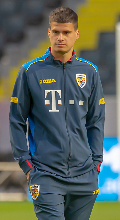 UEFA EURO qualifiers Sweden vs Romaina 20190323